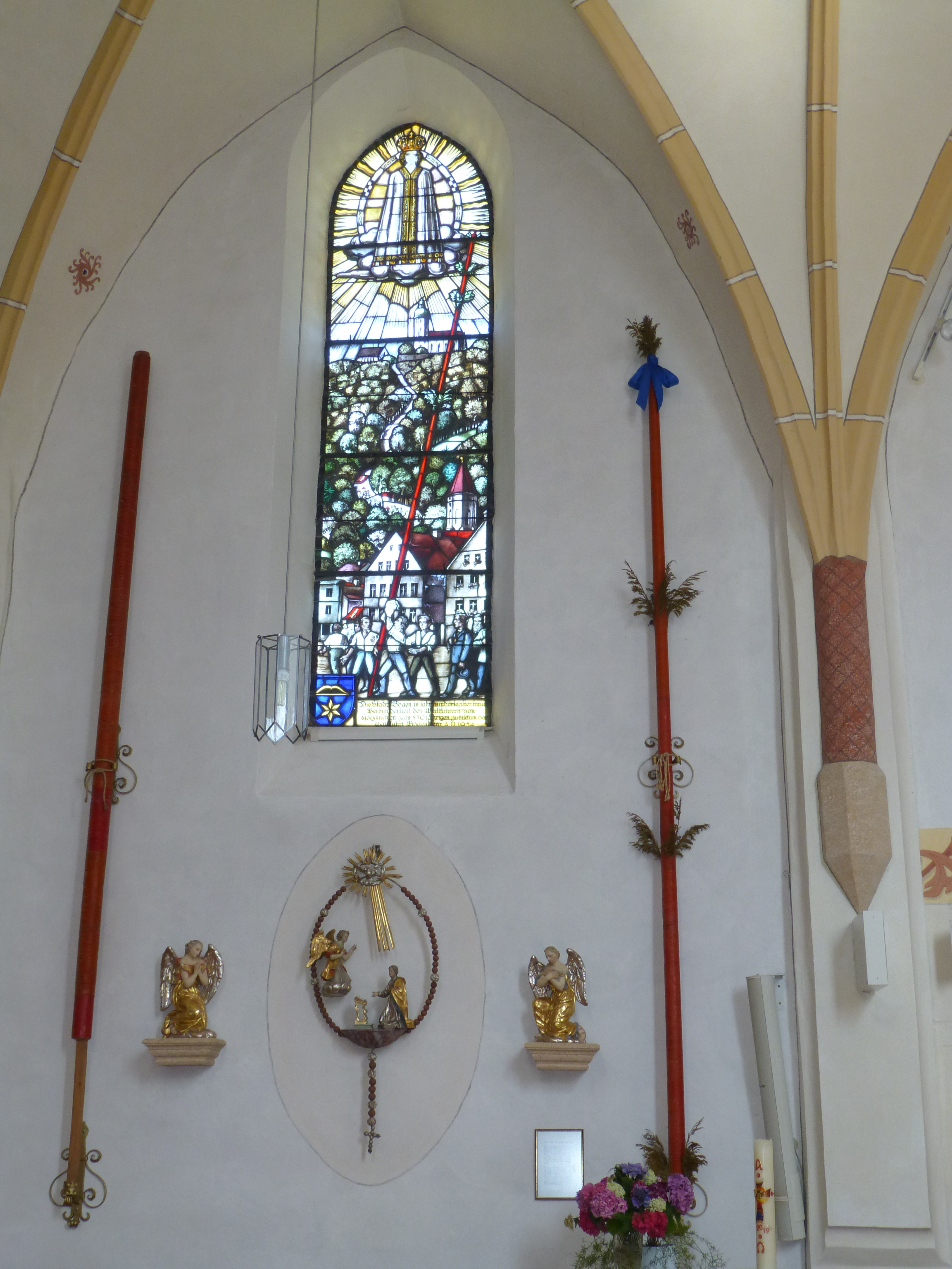 St. Andreas (Holzkirchen, Ortenburg) interior - two 4,4 m parts of the13 m candle